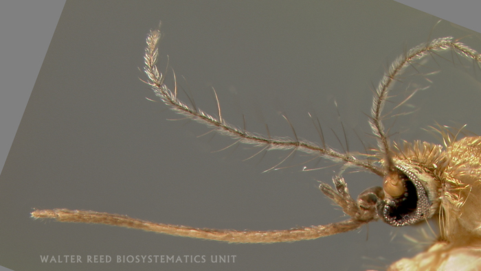 Head of Culex pipiens